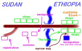 Gallabat and Metemma Map